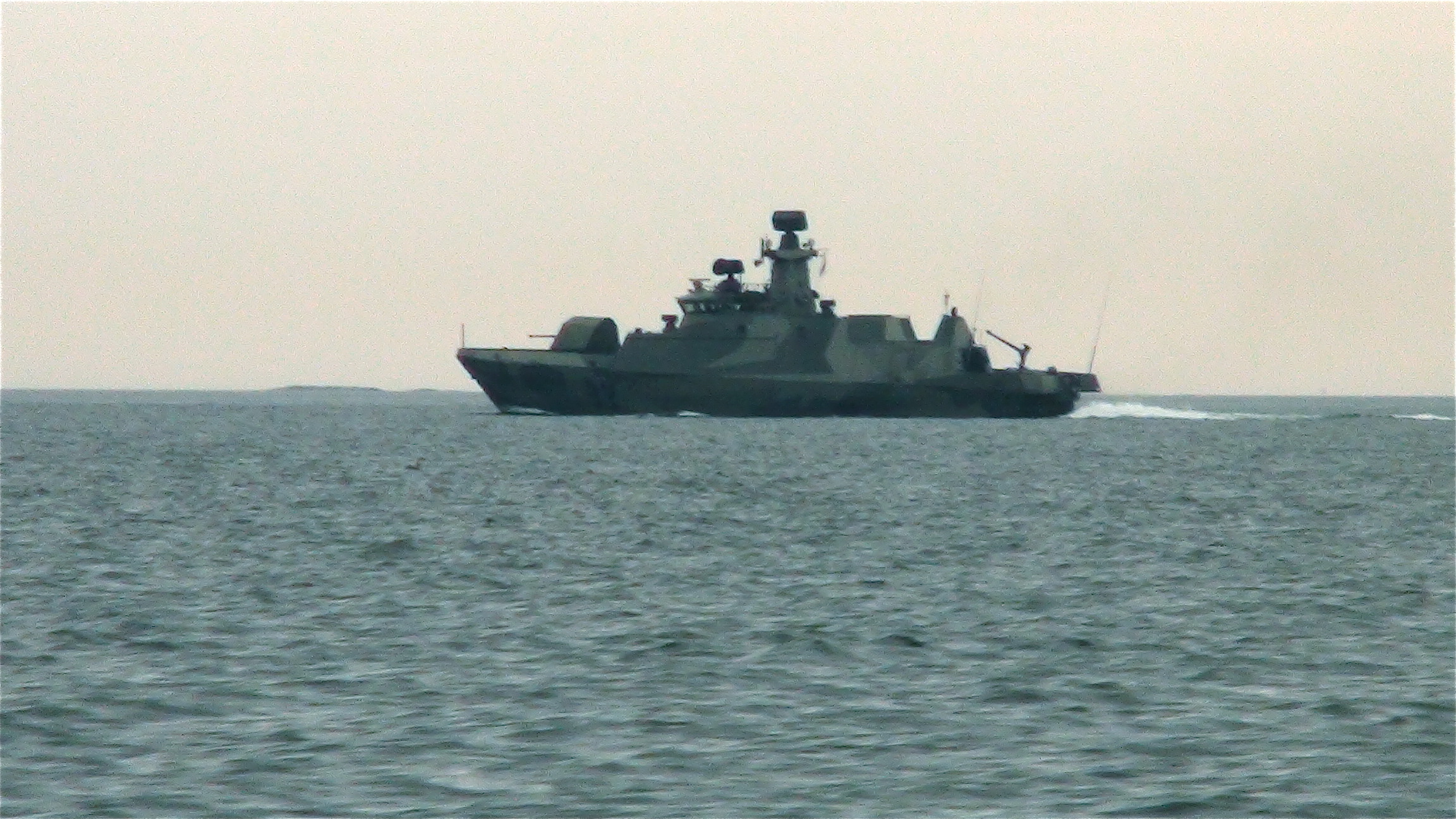 Hamina Class "Hanko" fast attack craft of Finnish Navy.